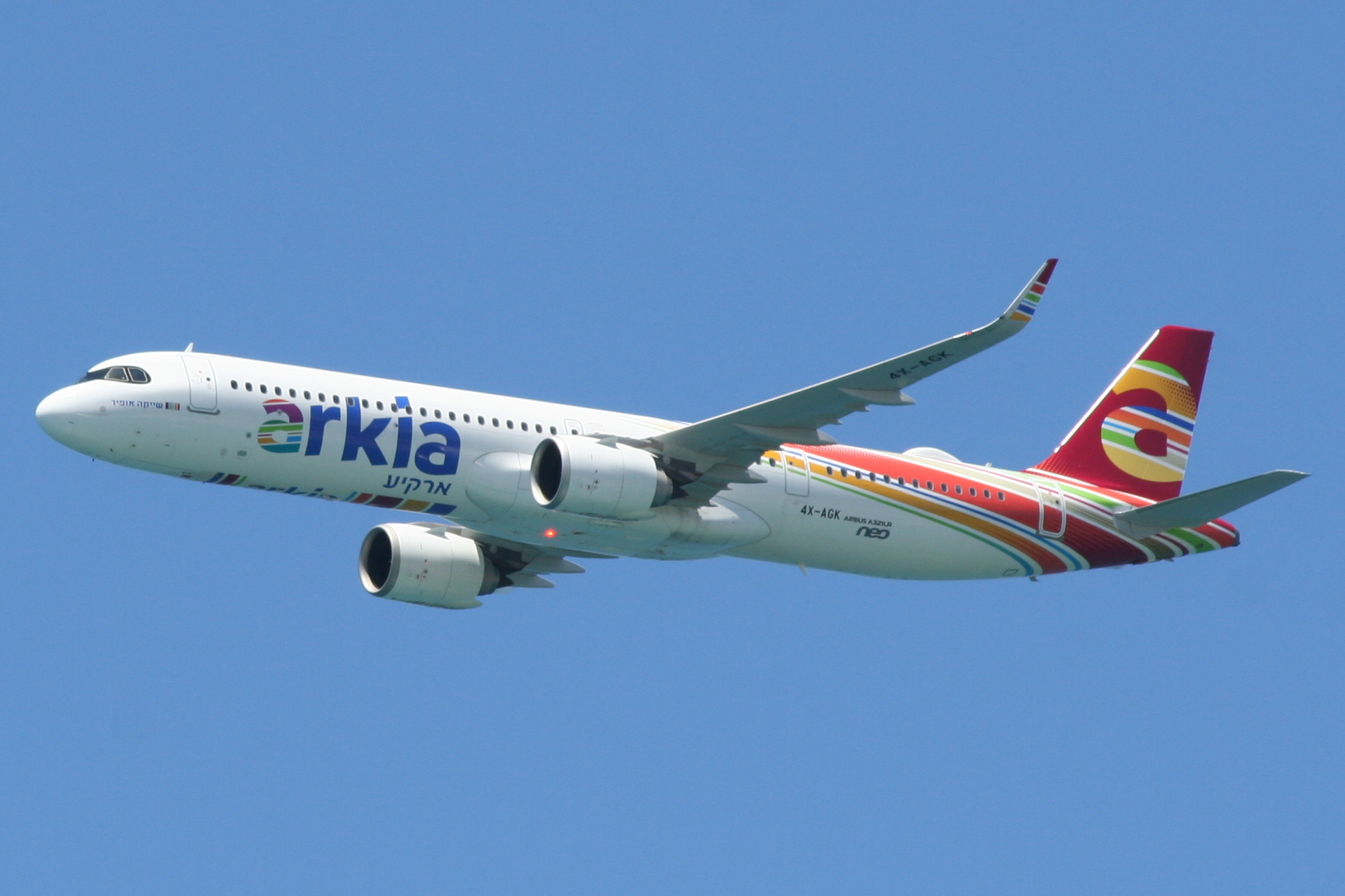 Israel 71st Independence Day Flyby, Arkia A320neo